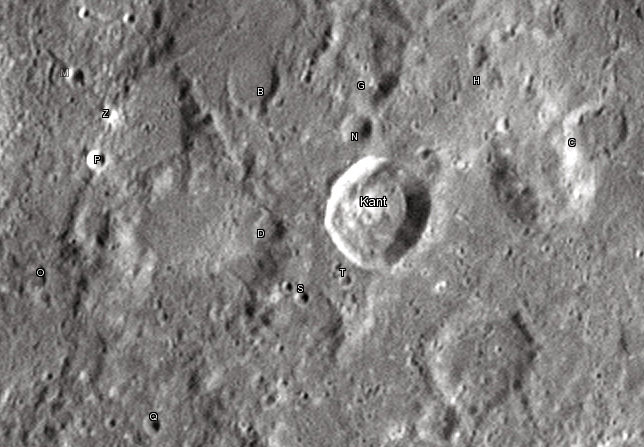 Kant lunar crater as seen from Earth with satellite craters labeled